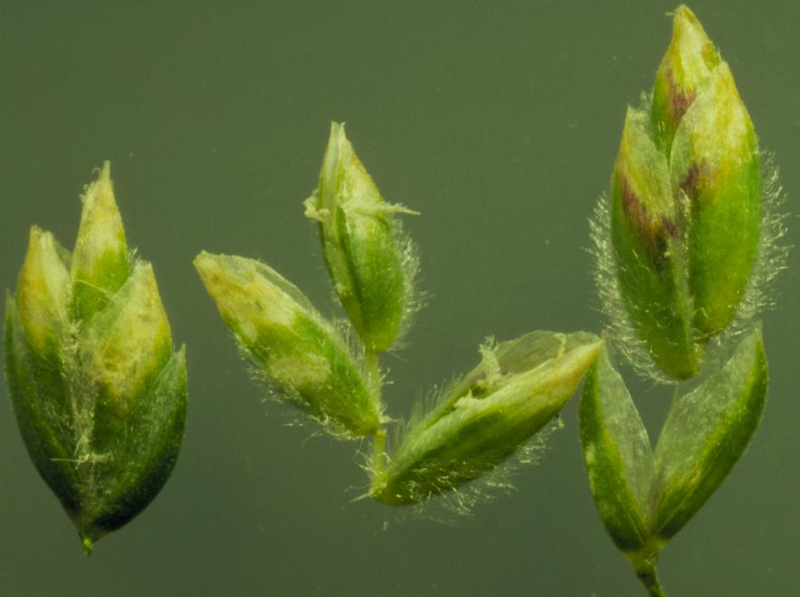 The spikelets are strongly laterally compress, usually 5 mm or more long, and the backs of the lemmas are conspicuously hairy but never cobwebby.